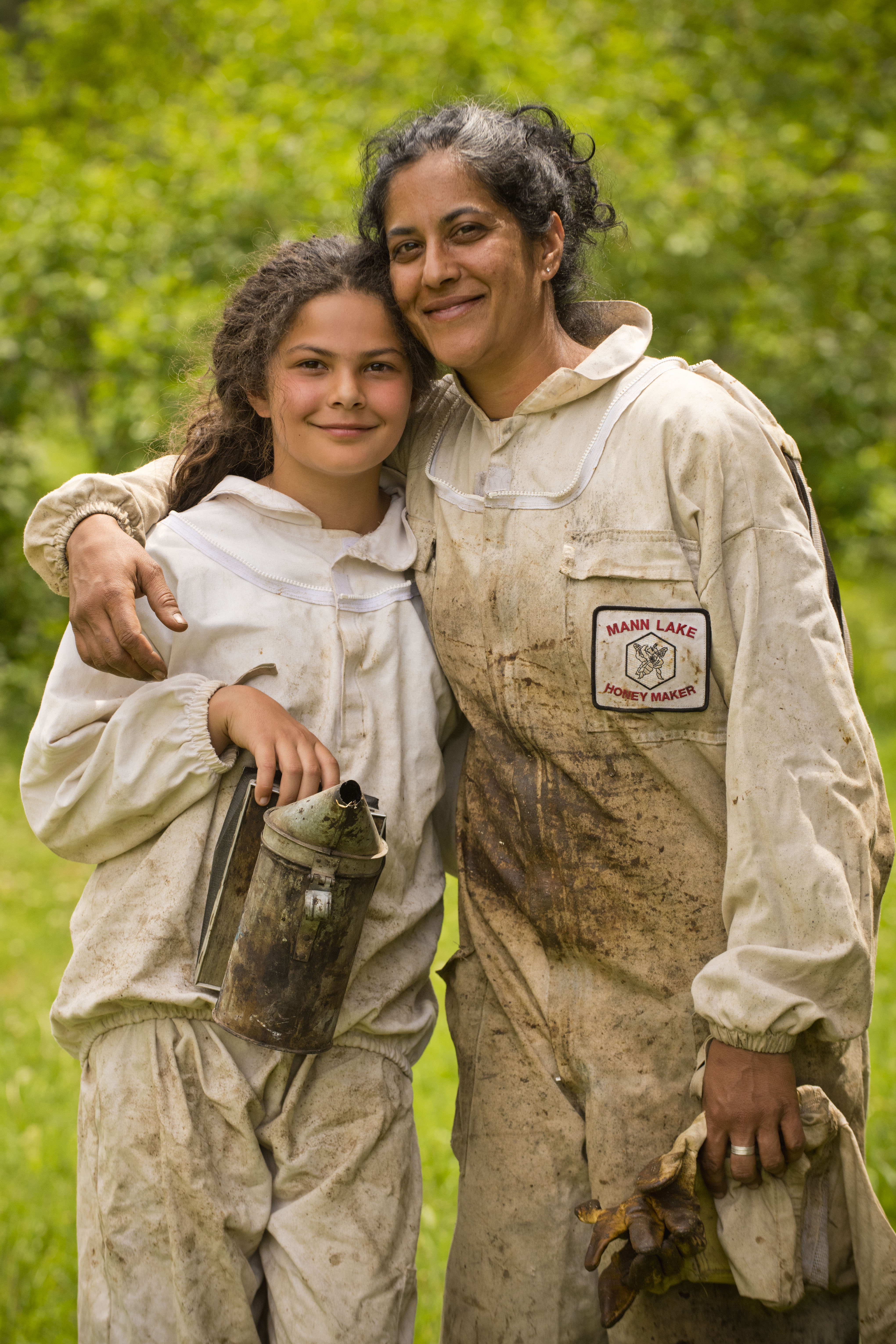 Justin and Kavita Bay, along with their two children Cy and Sujatha, own Rivulet Apiaries and Hindu Hillbilly Farms near Rivulet, Mont. NRCS worked with the Bays to combat future declines in honey bee populations by helping them to implement conservation practices that provide forage for honey bees while enhancing habitat for other pollinators and wildlife and improving the quality of water, air and soil. June 2017. Mineral County.